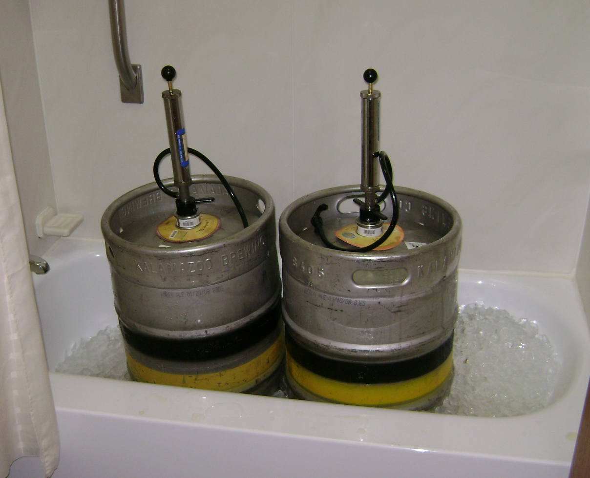 Beer kegs are ready to go